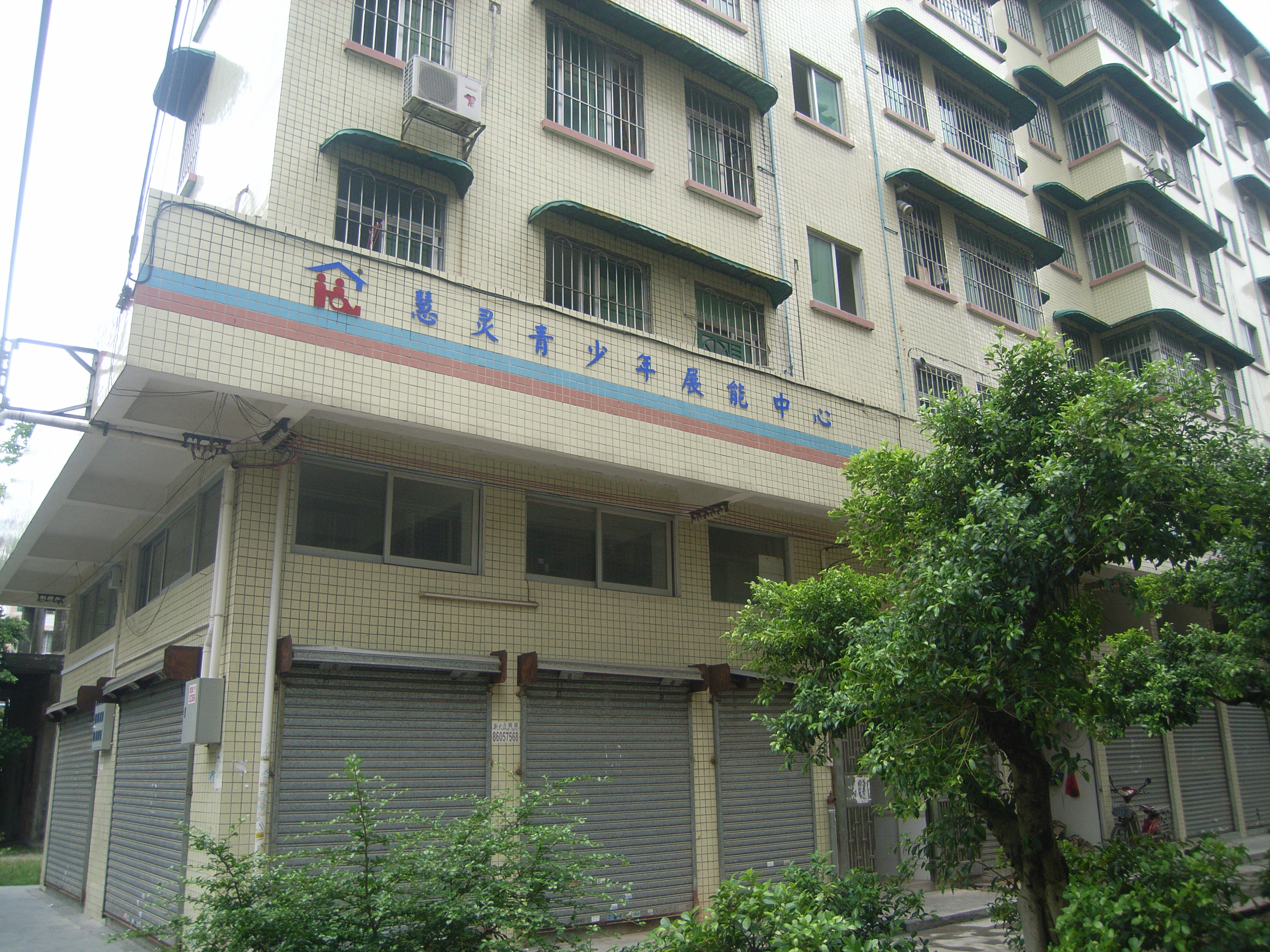 This centre was set up in 2006 for the purpose of providing vocational education, training and accommodation for the persons aged above 15, with mild and moderate mental disabilities. First, trainees are evaluated when they enter. Then Huiling makes individualized vocational training plans according to their ability and requirement. These trainings will help trainees develop vocational skills, community independent living skills and work behaviors, so as to match the needs of supported and community employment, with the aim of improving their life quality.